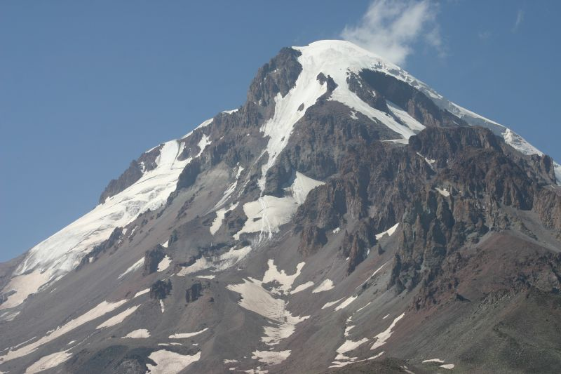 The massive Gergeti glacier next to Mt. Kazbek